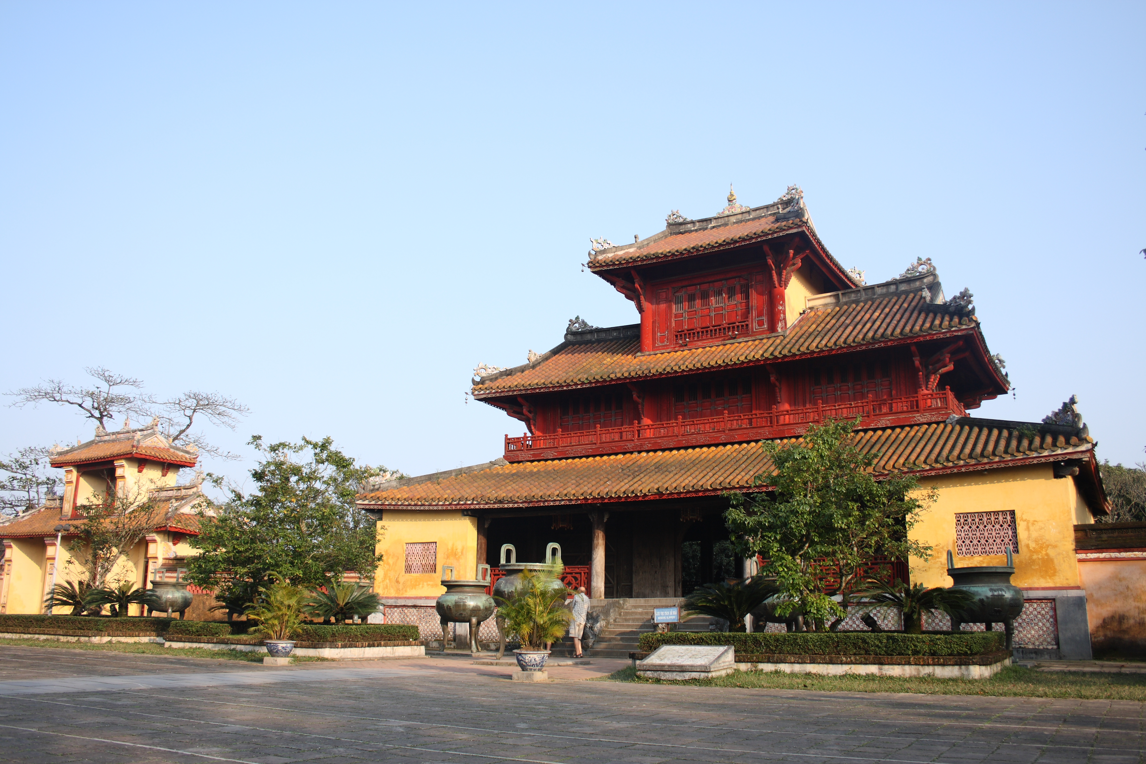 One of the buildings in Hué's imperial palace